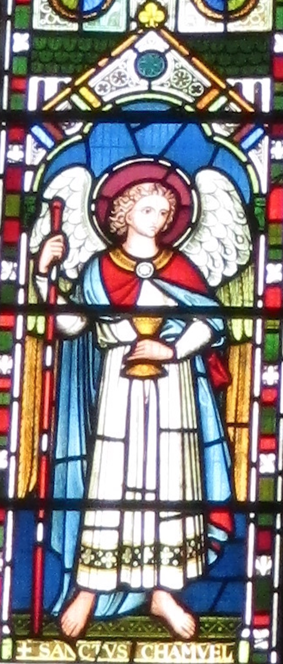 Saint Chamuel (Camael) the Archangel, stained glass made in 1862 at St Michael and All Angels Church, Brighton, East Sussex, England.